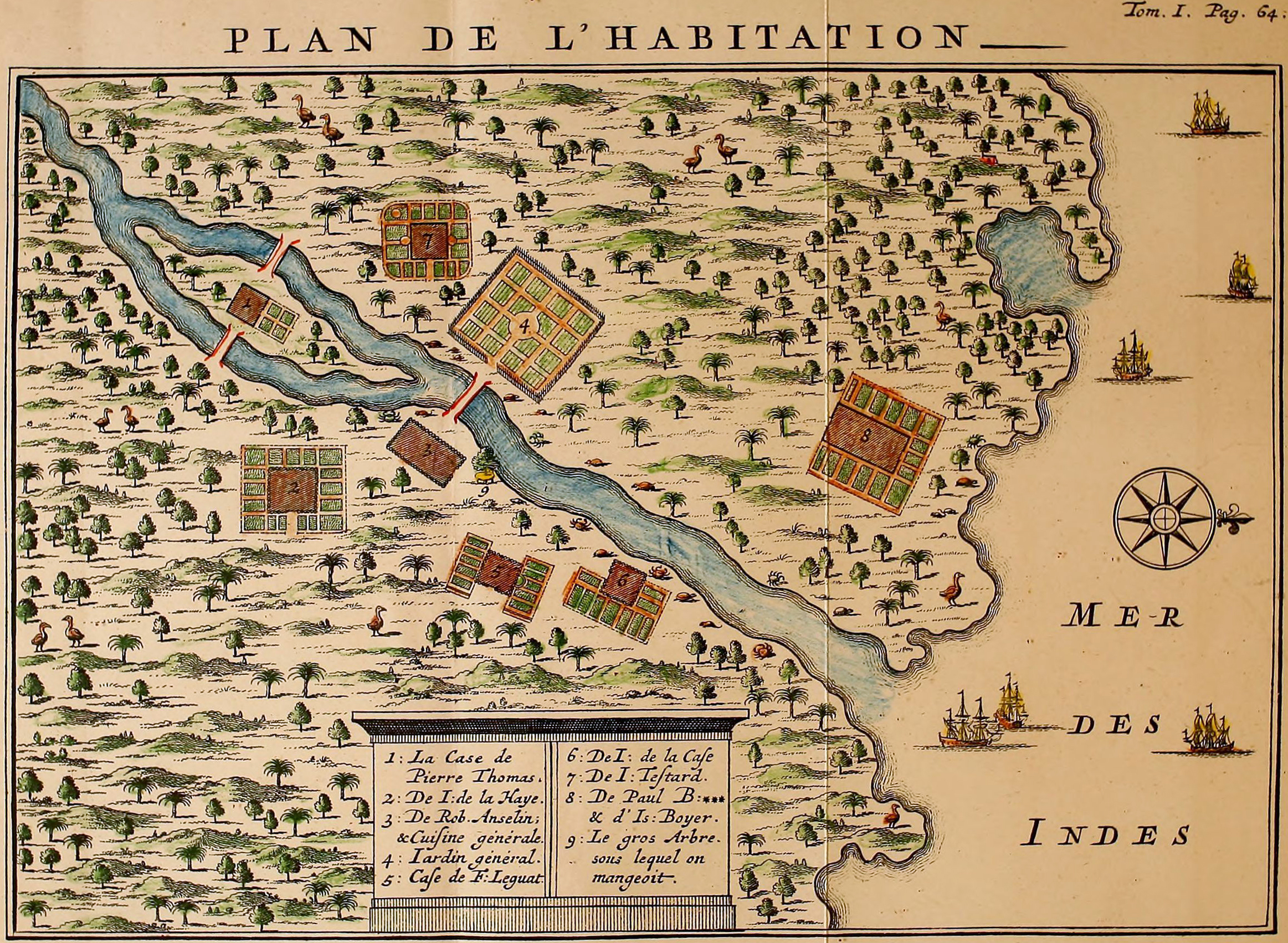 François Leguat's map of his settlement on Rodrigues. Rodrigues Solitaires can be seen sprinkled all over the map.